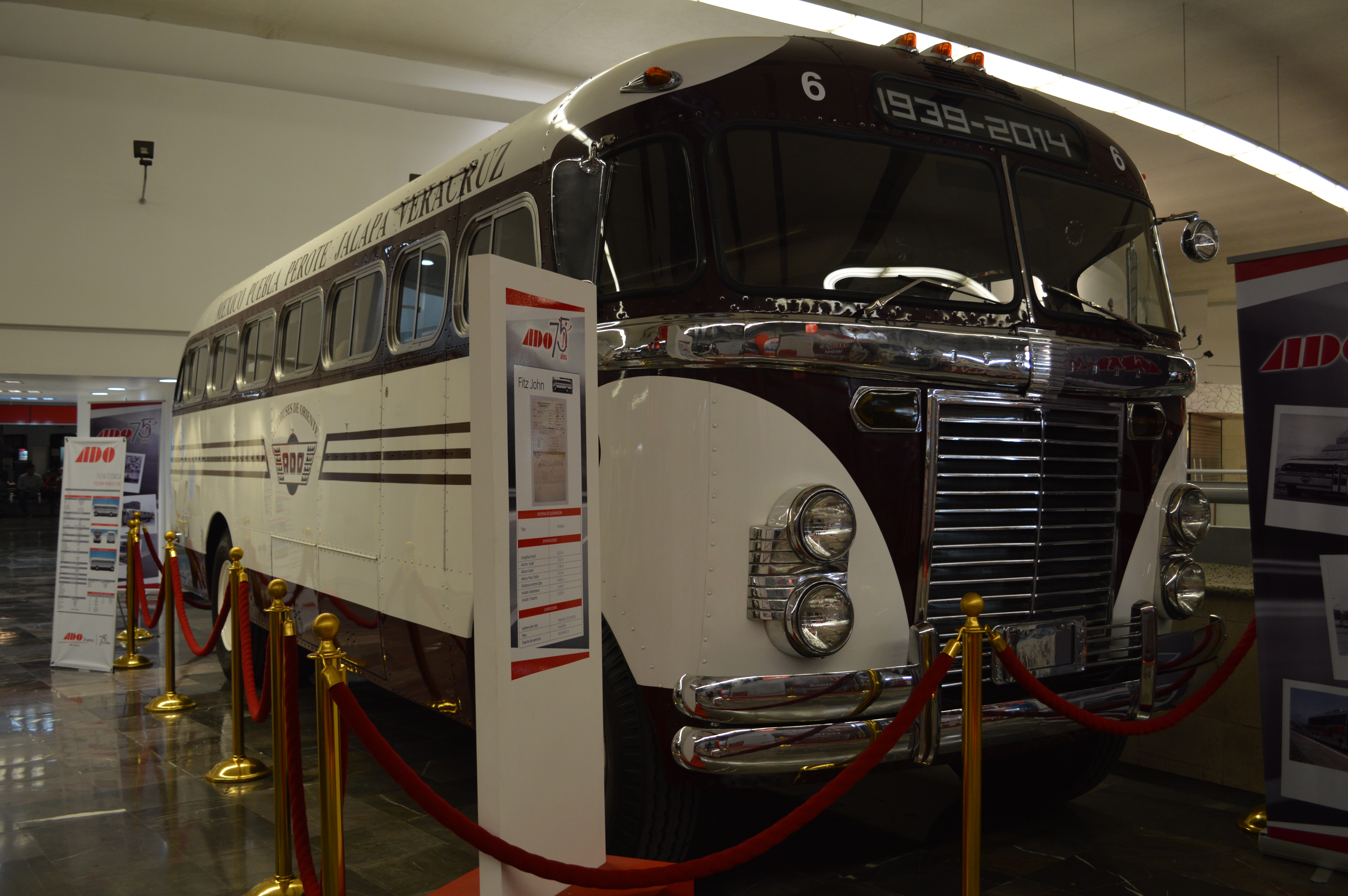 1949 Fitzjohn bus on display at the TAPO bus station in Mexico City